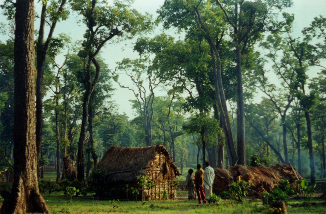 The forestland of India's Western Ghats is a target for conservation, which must involve local communities.